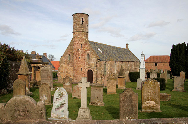 St Helens Church at Cockburnspath This attractive church dates from the 1500s. There have been many alterations over the years but the striking feature of the building is the circular tower on the west wall.